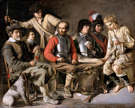 A Quarrel